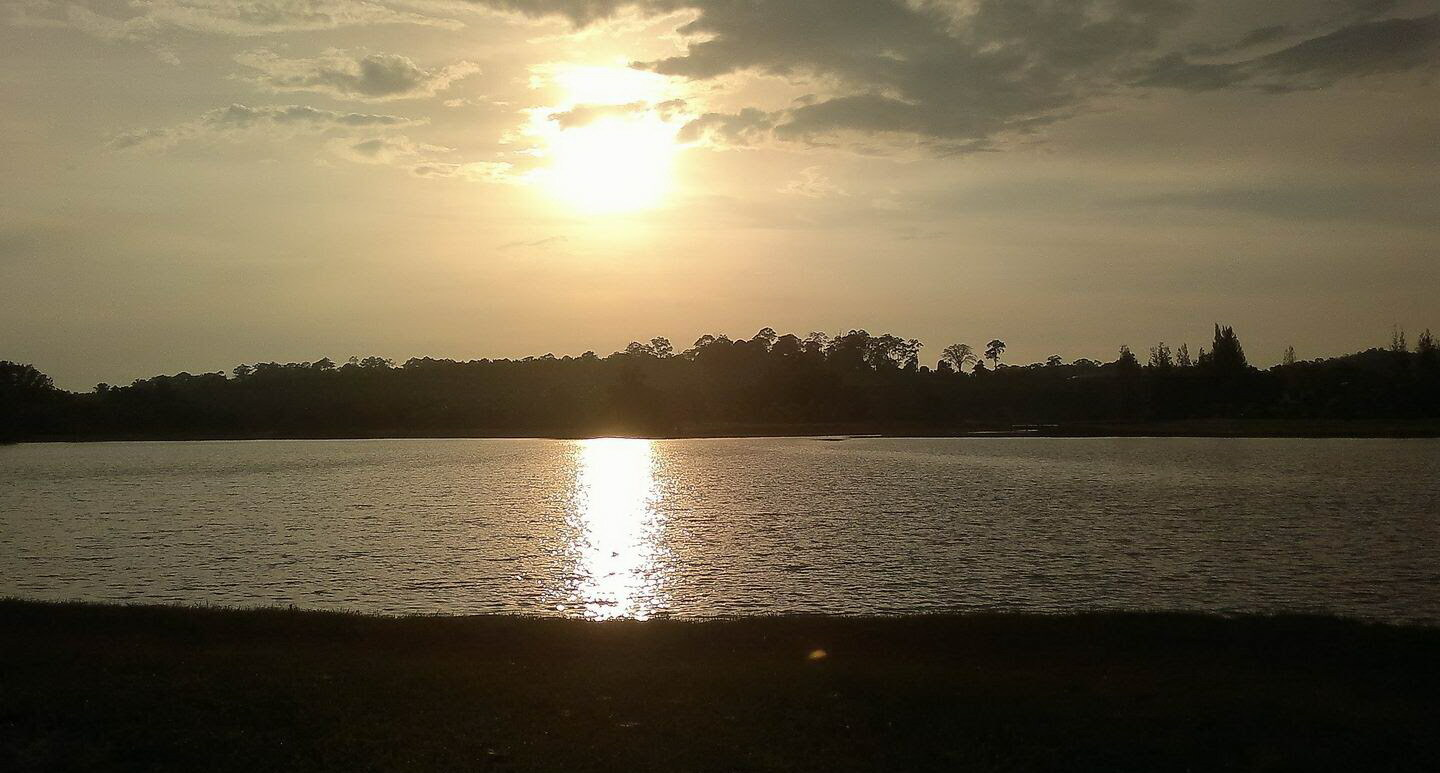 UTP Lake